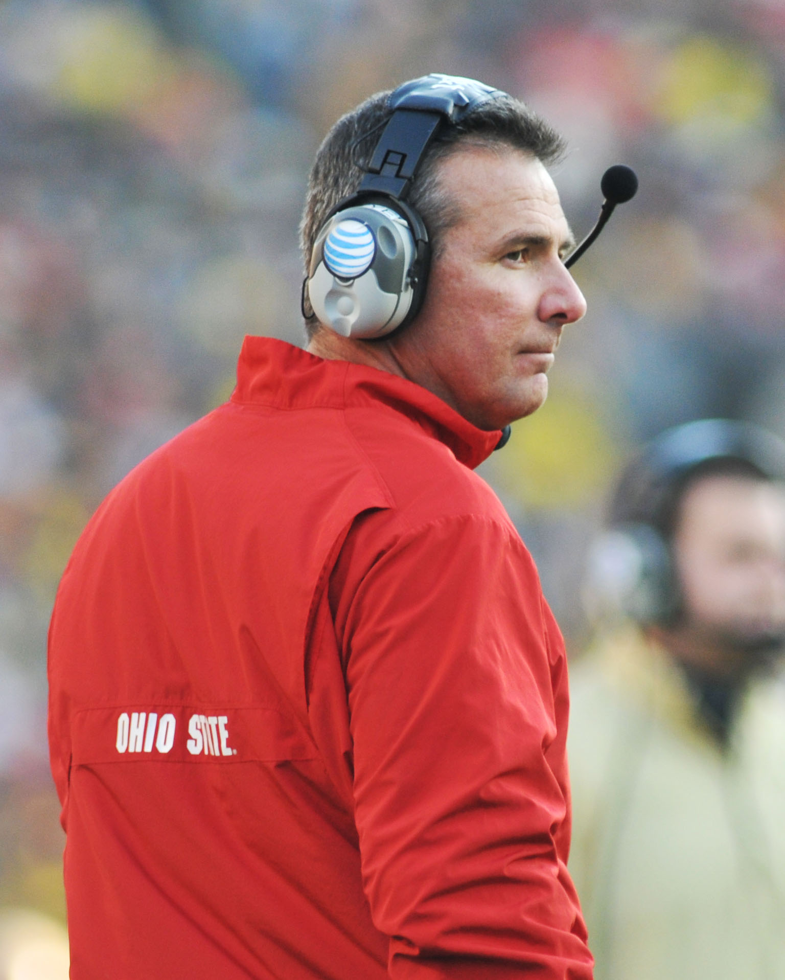 Urban Meyer, head coach of Ohio State (Adam Glanzman/Daily)